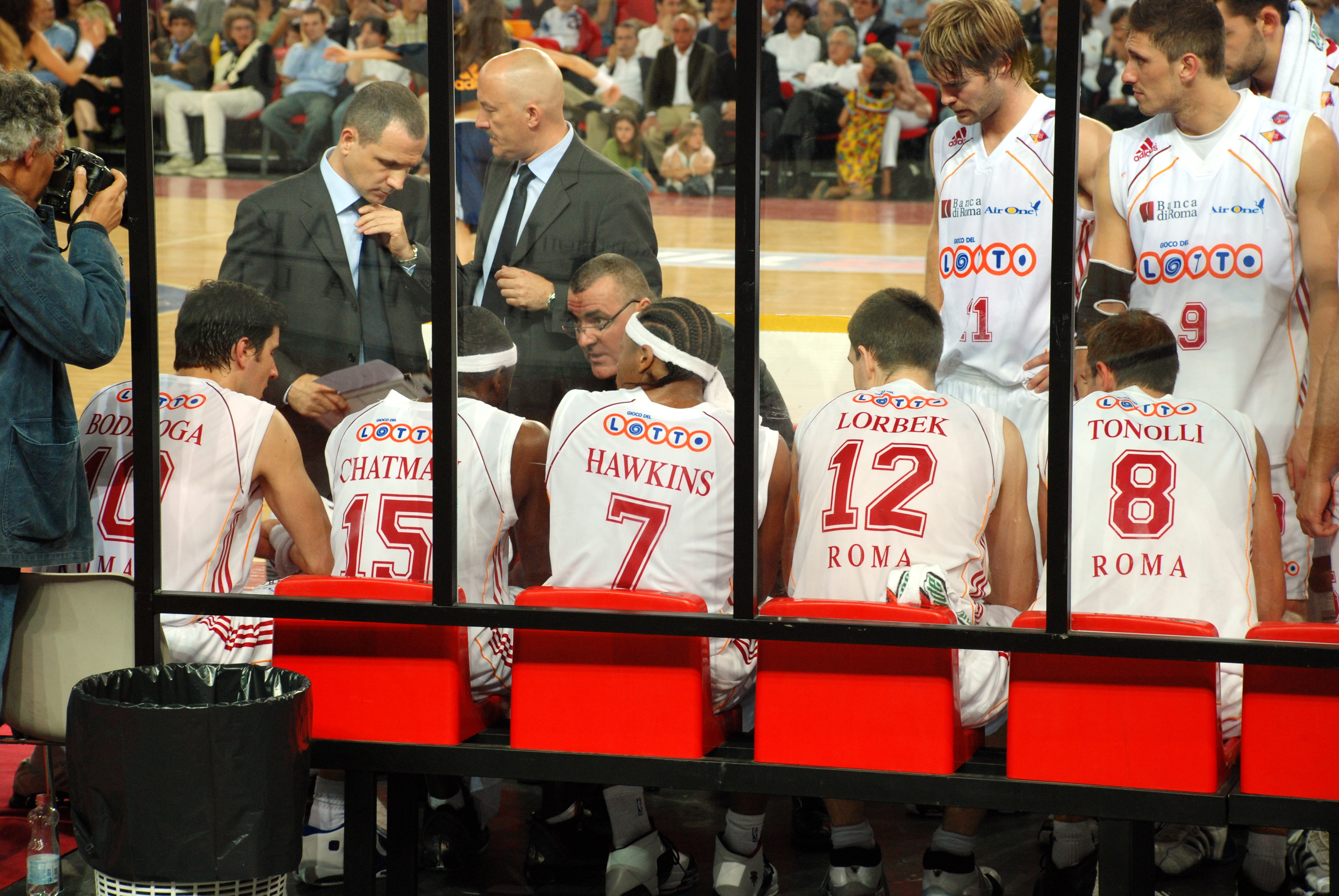 The bench of Pallacanestro Virtus Roma during a match